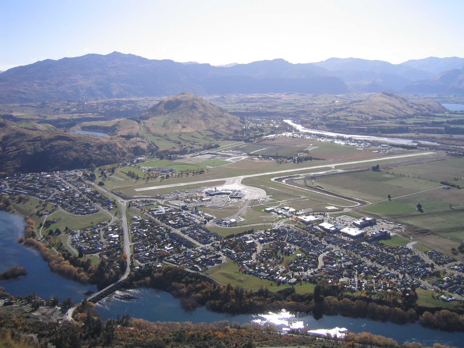 View of Queenstown airport from Deer Park. Photographed by User:ruazn2 6th May, 2007